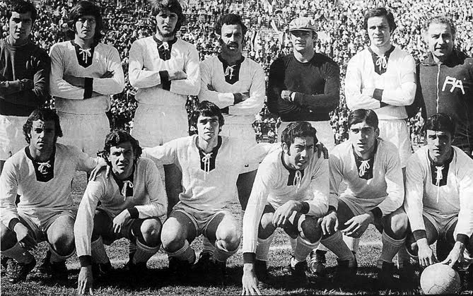 All Boys team in 1972. The squad crowned Primera B champion after defeating Excursionistas 1–0 with a goal scored by Benítez.